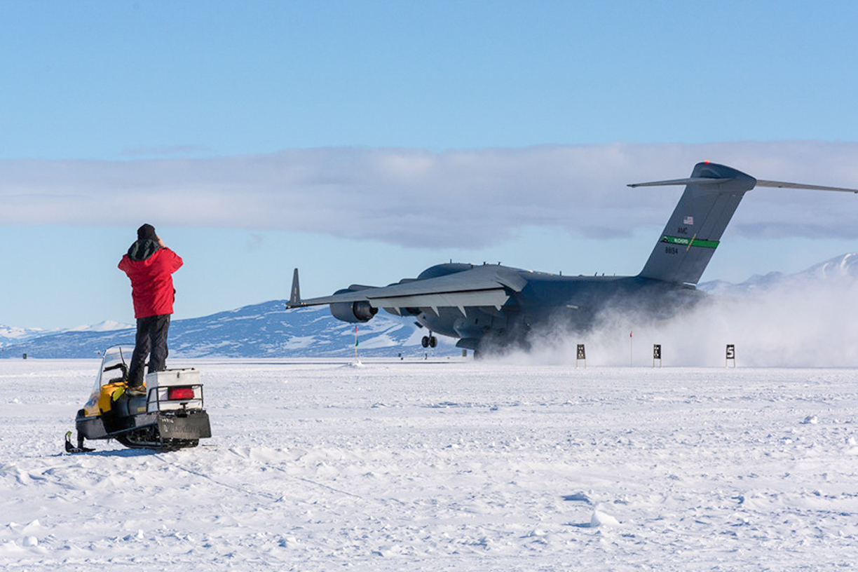 US Army Cold Regions Research and Engineering Laboratory, Research Civil Engineer, T.J. Melendy, watches from his snowmobile as a C-17 takes off from the new Phoenix Airfield at McMurdo Station in Antarctica. After withstanding two takeoffs, two landings and a series of taxiing maneuvers, the new airfield is certified safe for wheeled aircraft.